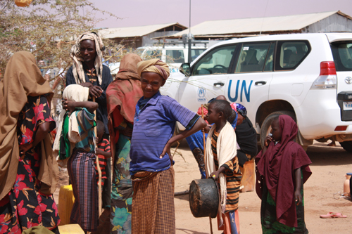 The United States is working closely with other donors and international organizations to respond to the humanitarian crisis in the Horn of Africa. (U.S. Embassy/Ethiopia)